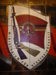 Logo of the Ministerium für Staatssicherheit (Ministry for State Security) (MfS, “Stasi”), mural in the local Stasi headquarters Leipzig